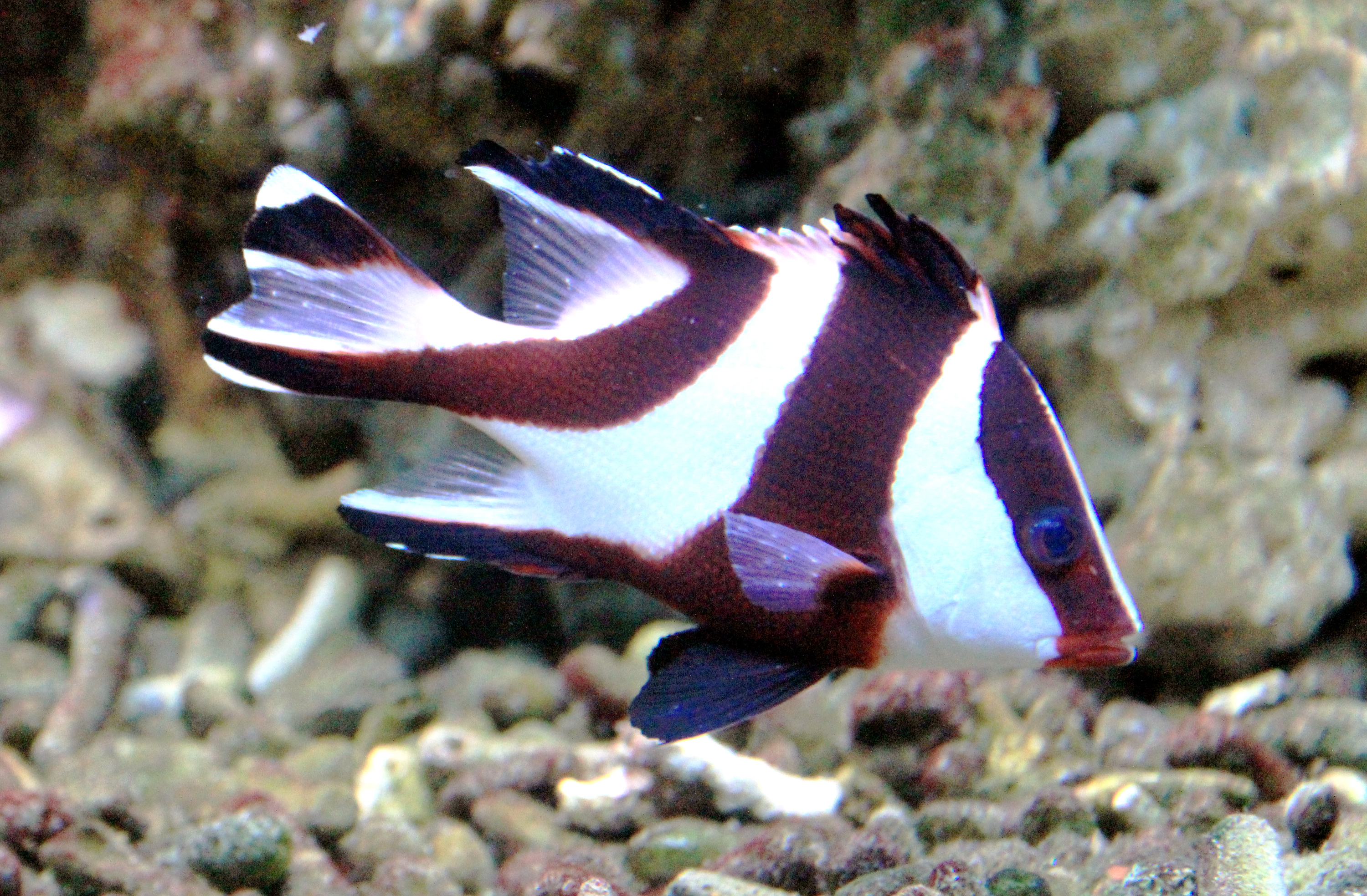 Sea fish Lutjanus sebae in Prague sea aquarium “Sea world”, Czech Republic Česky: Ryba chňápal císařský Lutjanus sebae v pražském mořském akváriu Mořský svět v Holešovicích